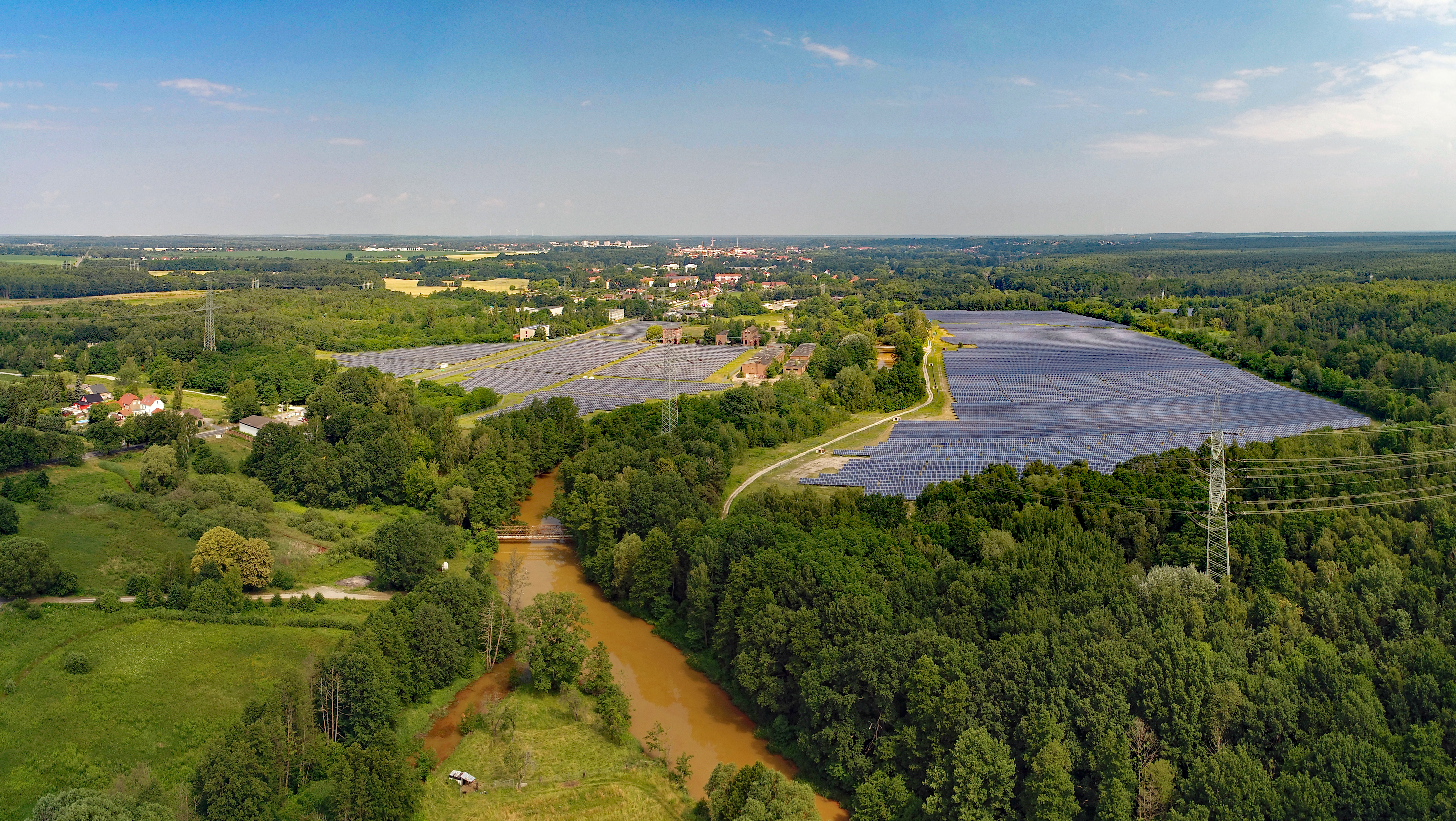 Two solar farms on the area of former power plant Kraftwerk Trattendorf (Spremberg, Brandenburg, Germany) left and right from the river Spree Hornjoserbsce: Dwě solarnej poli na přestrjeni bywšeje Dubrawskeje milinarnje pola Grodka, na woběmaj brjohomaj Sprjewje.